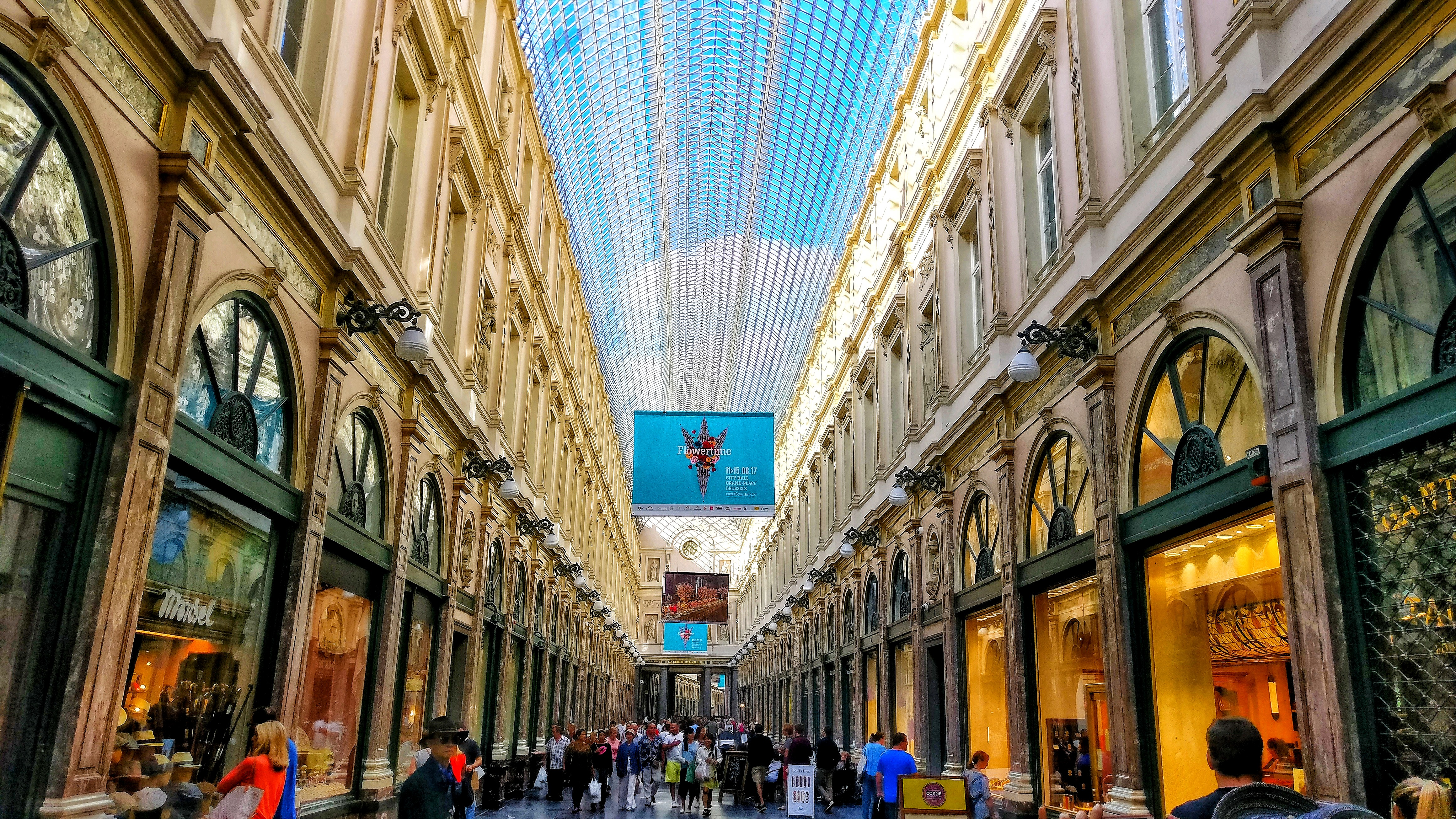 Famous shoping place in the heart of the Brussels.